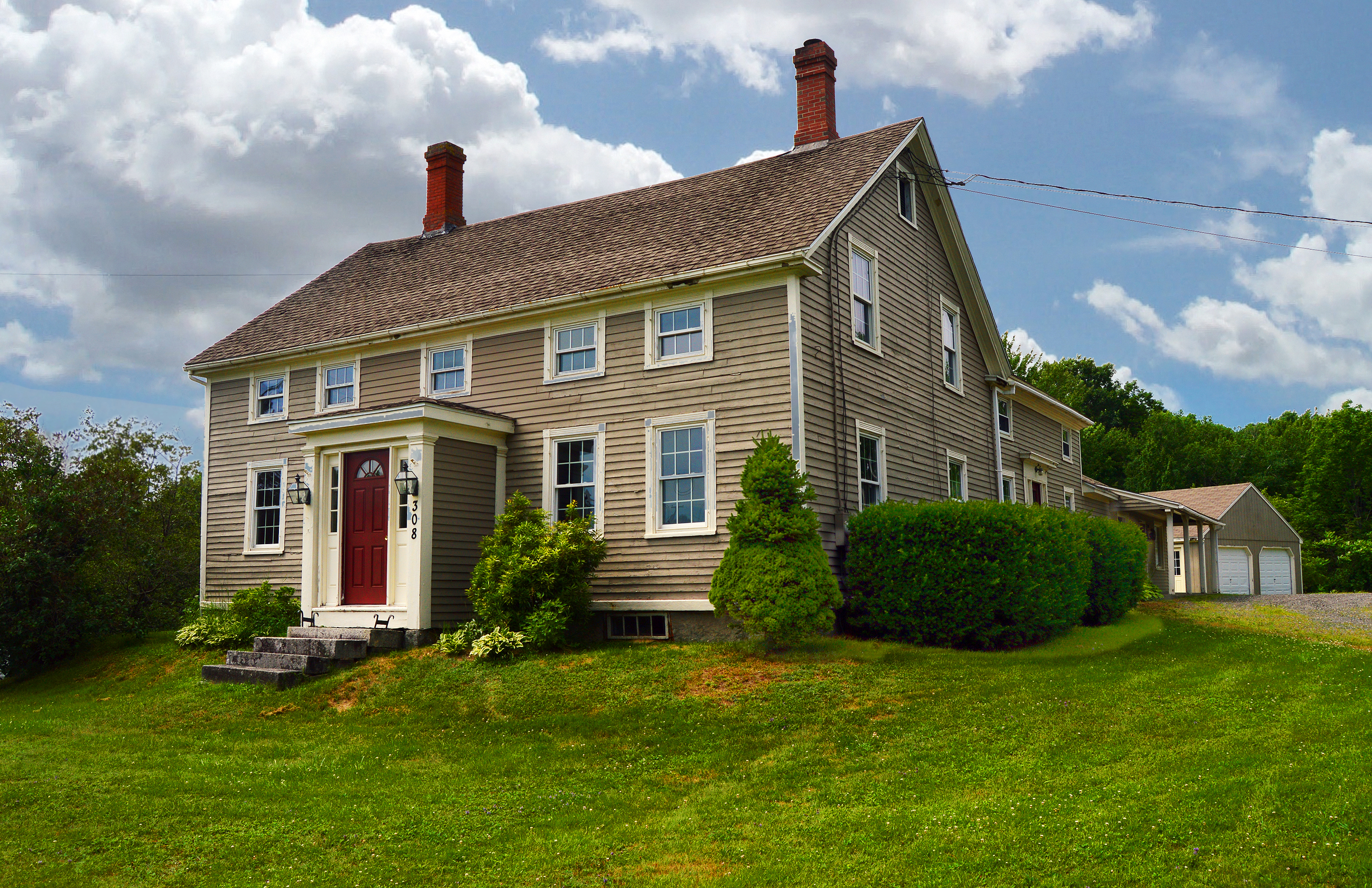 The Park-Griffin-Treat House, Searsport, ME. This typical Maine sea captain's house was built by local shipwrights for Capt. Benjamin Bentley Park in 1840